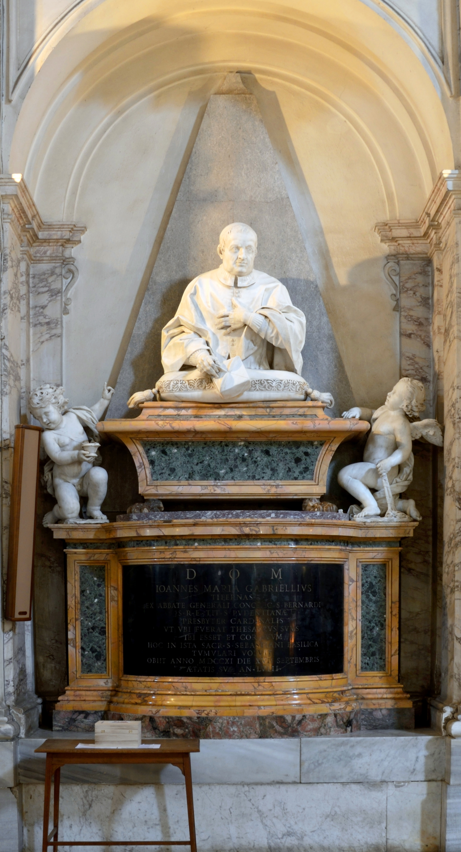 Tomb of Giovanni Maria Gabrielli in San Sebastian outside the walls